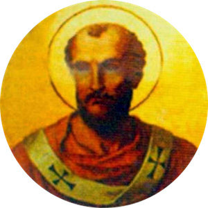 Portait of Pope Gregory I in the Basilica of Saint Paul Outside the Walls, Rome